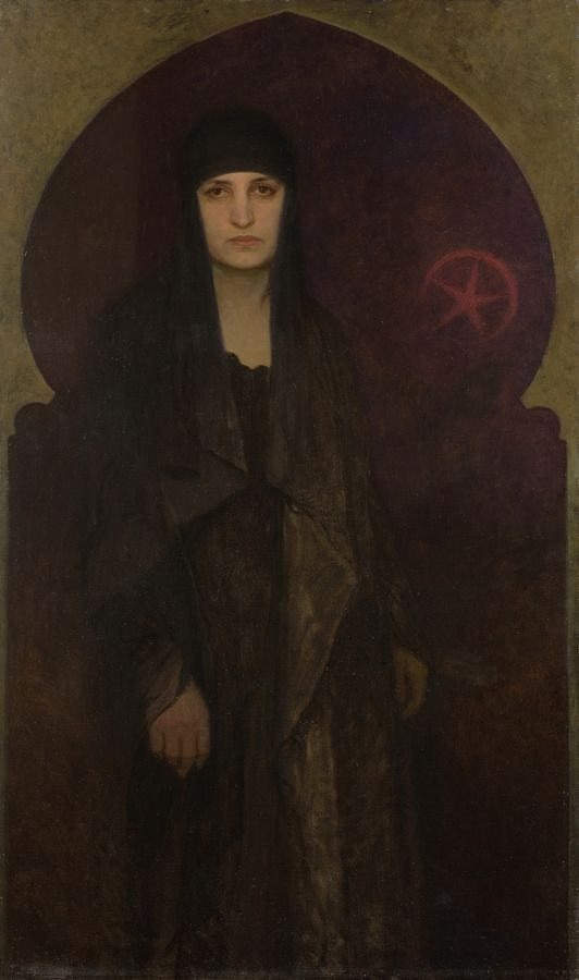 Alphonse Mucha Portrait of Halide Edib Adivar